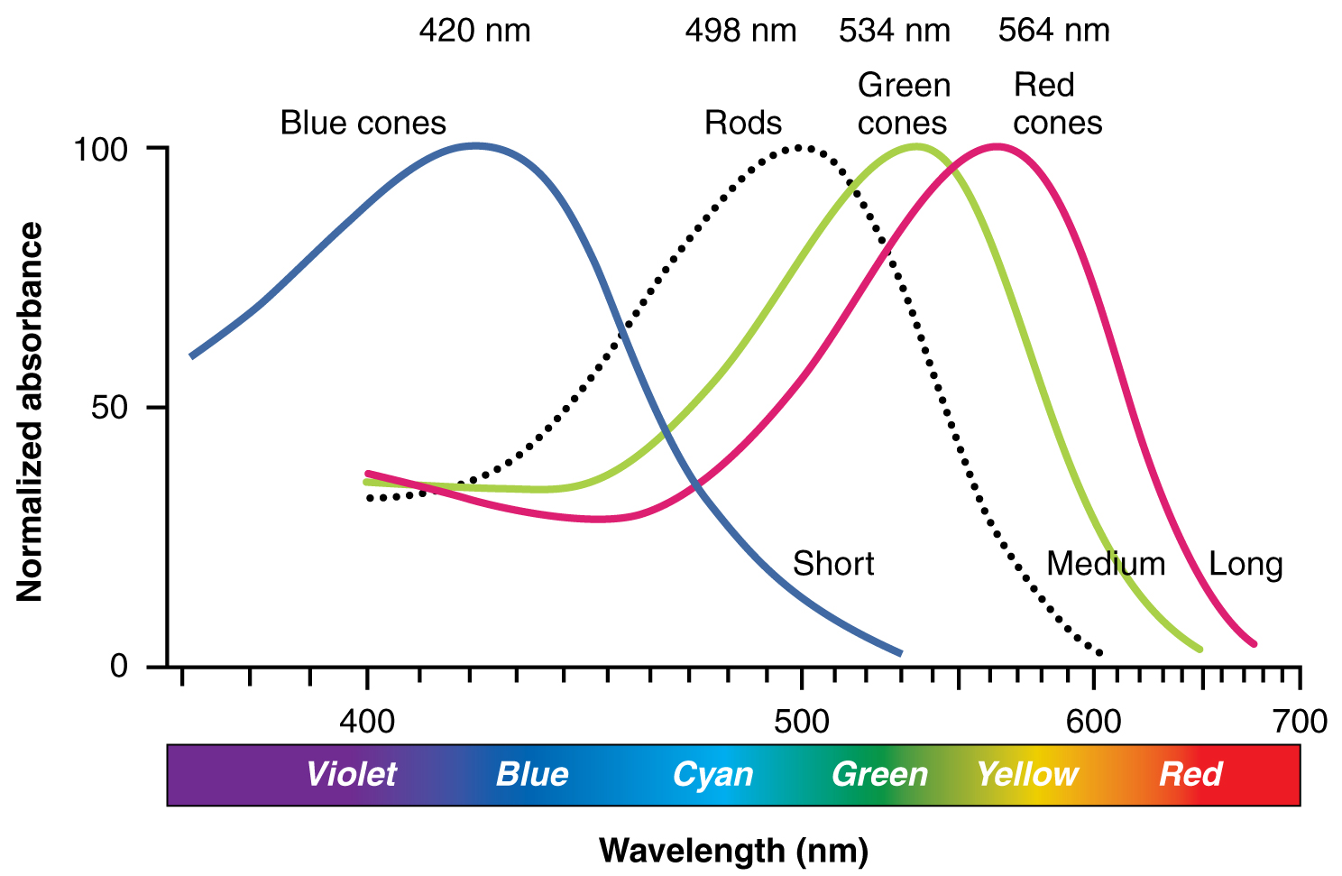 Illustration from Anatomy & Physiology, Connexions Web site. Jun 19, 2013.